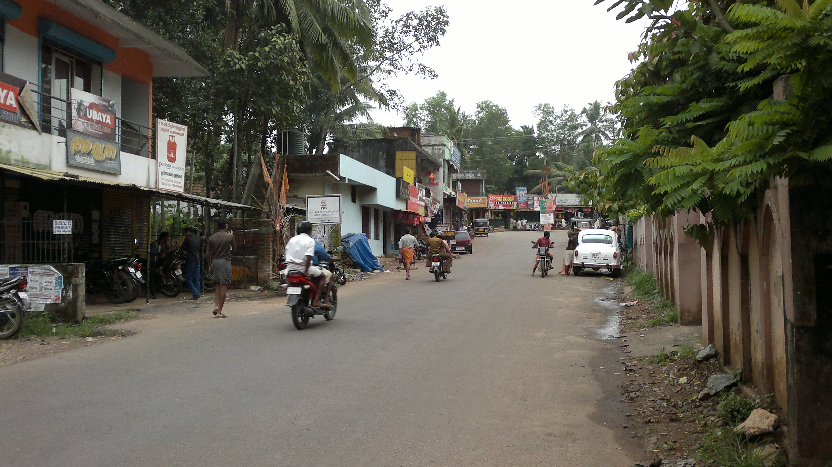 Ottasekharamangalam a view from Kattakada road